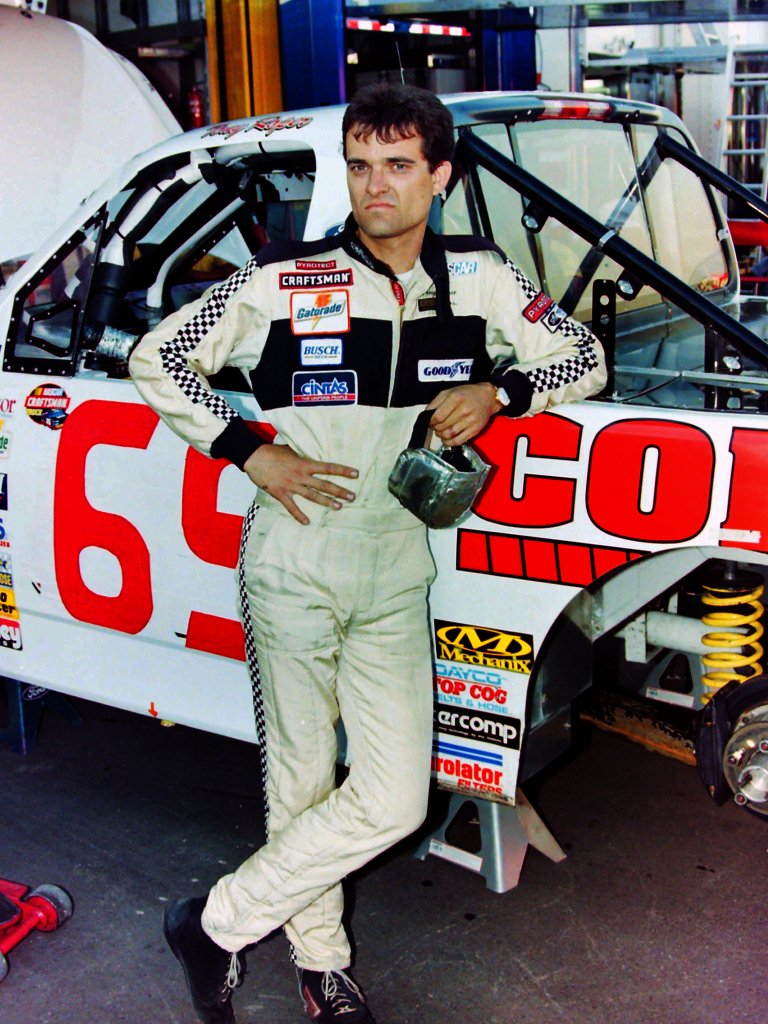 NASCAR driver Tony Roper in October 1997 at California Speedway before the No Fear Challenge. He drove the No. 31 truck for Brevak Racing; here he stands in front of the #65 truck, which was his back-up truck hastily renumbered to fill the field with Doug George parking after completing five laps.